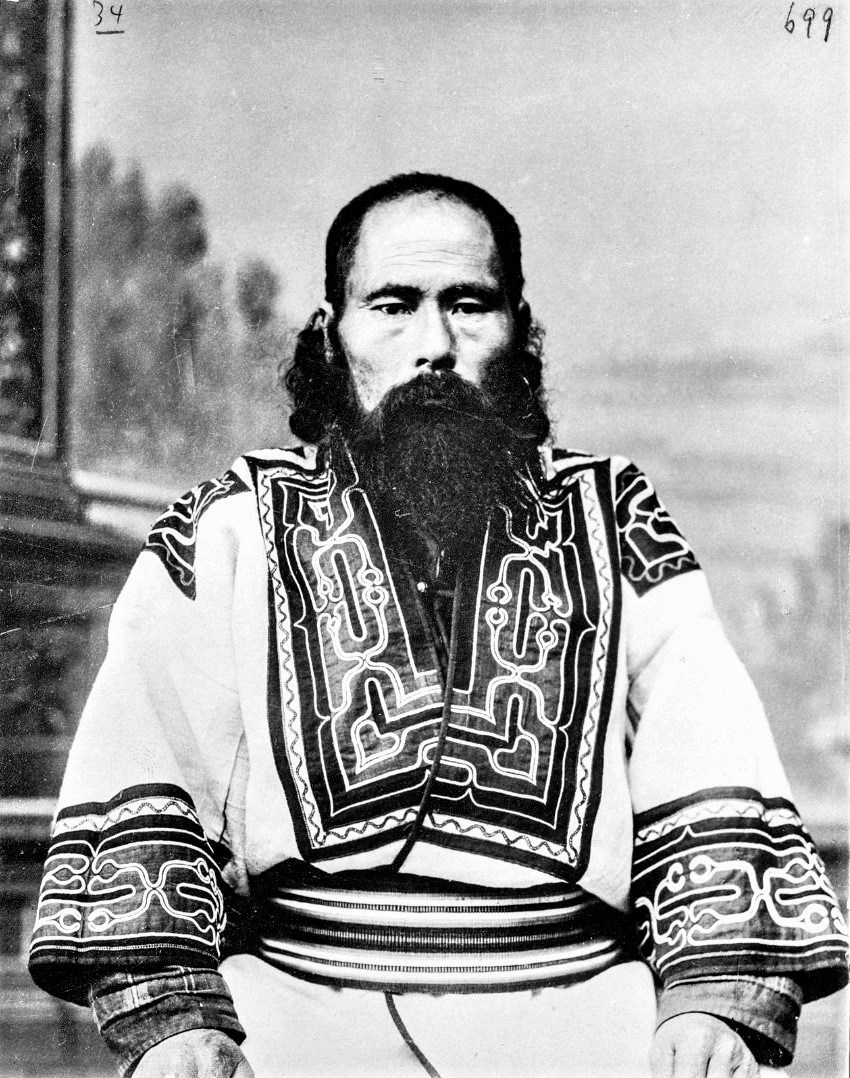 Bronislaw Pilsudski, a Polish prisoner of the Russians, took this picture of a wealthy Sakhalin Ainu man around 1905. Identified as a mixed blood Ainu/Russian, the bold designs on his robe, typical of Sakhalin robes, indicate the ready availability of fabrics that the Hokkaido Ainu could never afford. Notice the belt, a clear sign of prosperity. While the Sakhalin Ainu had a separate dialect, they had no problem communicating with Hokkaido Ainu as suggested by the number of intermarriages.